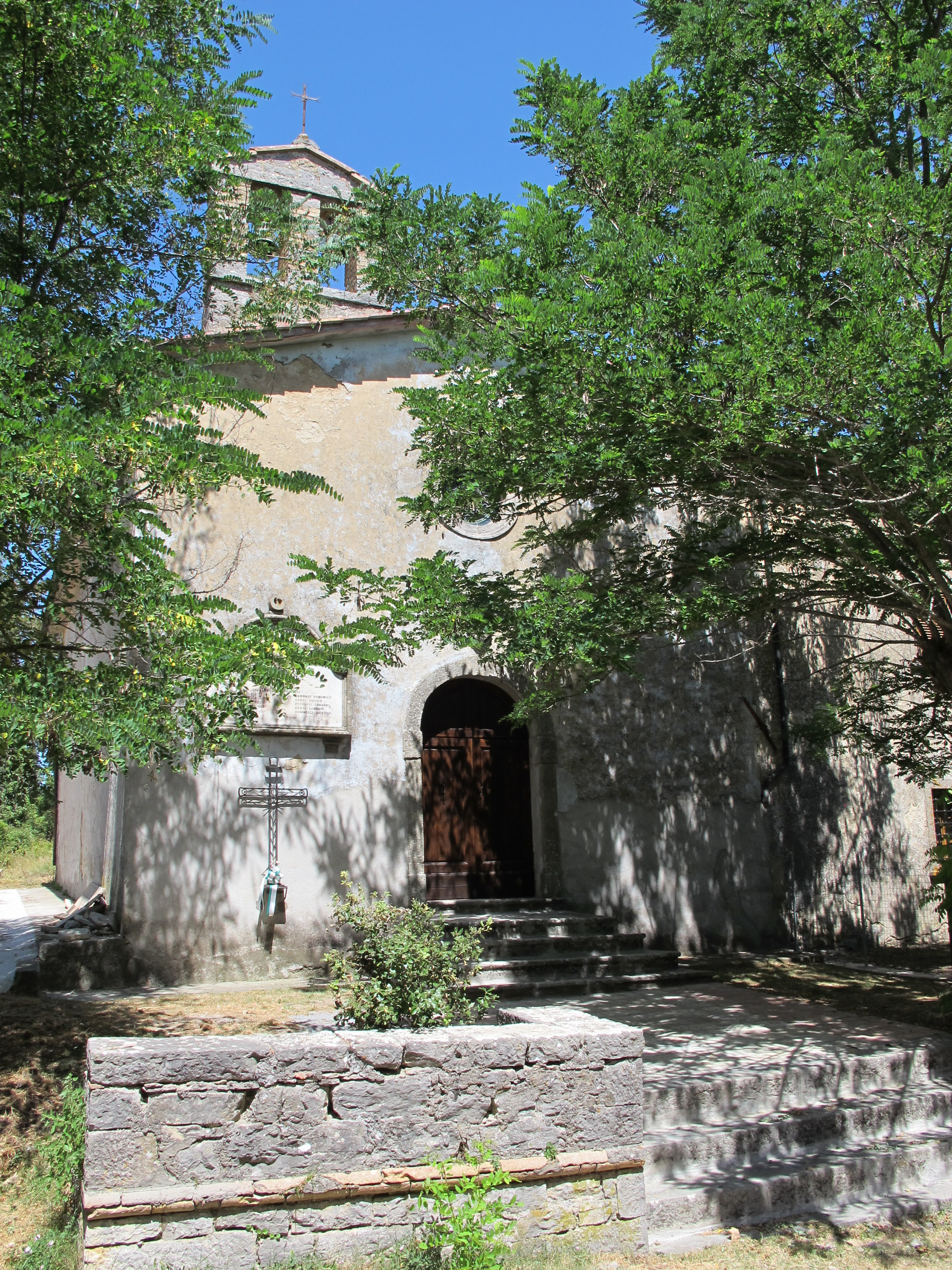 The church of San Bernardino, Triana, Italy